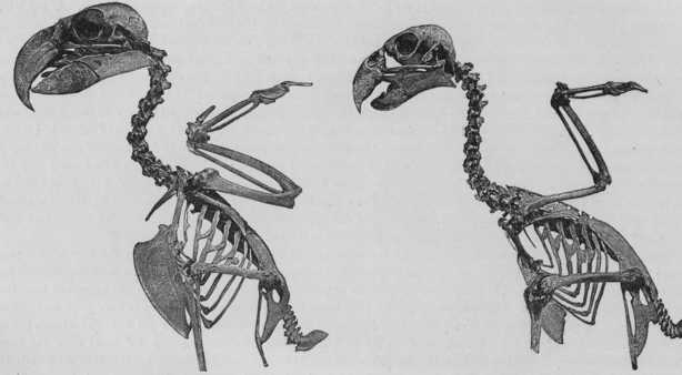 Kaka (Nestor meridionalis) and Kakapo (Strigops habroptila) skeletons.